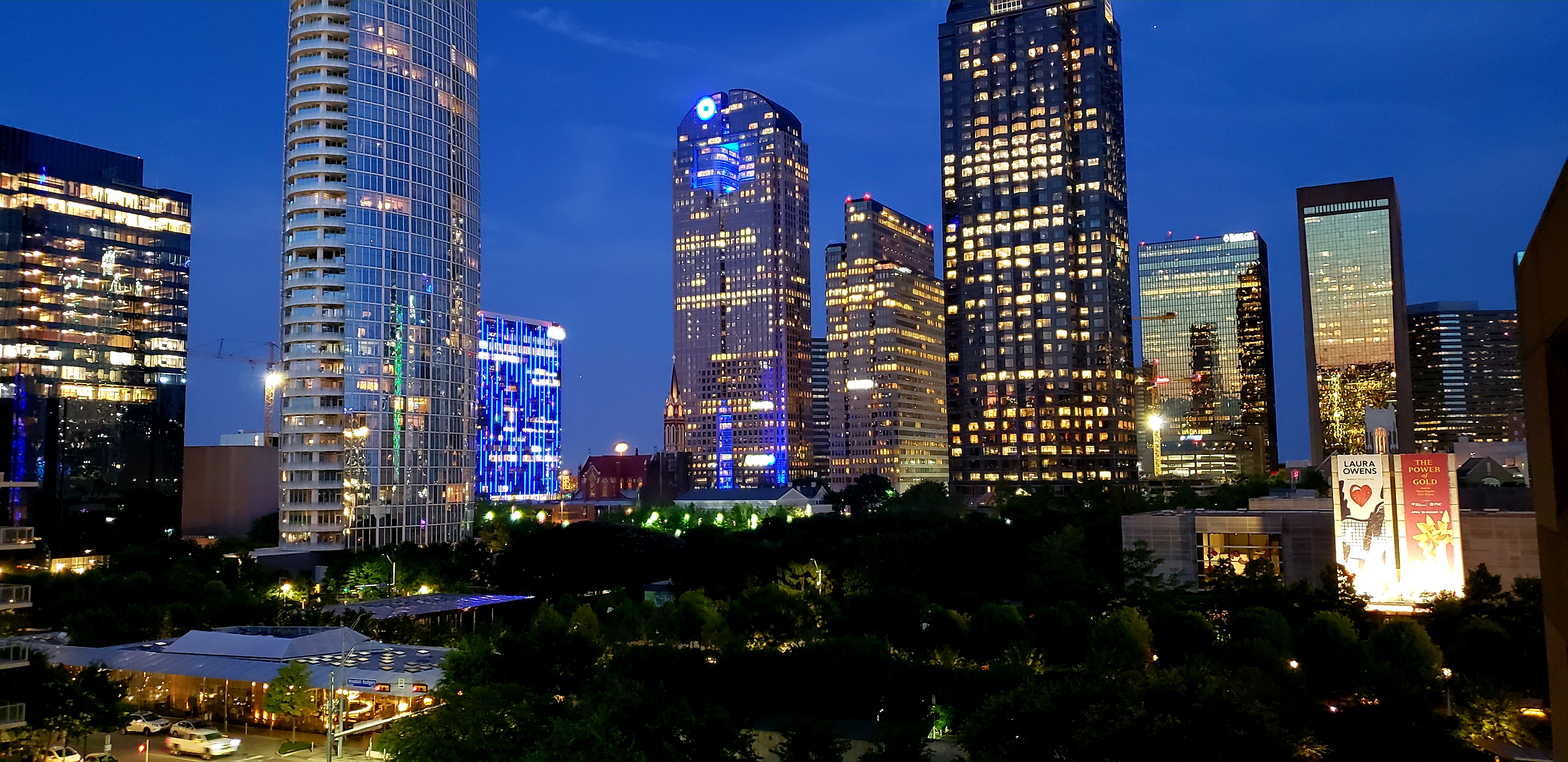 Klyde Warren Park and its surrounding skyscrapers at dusk